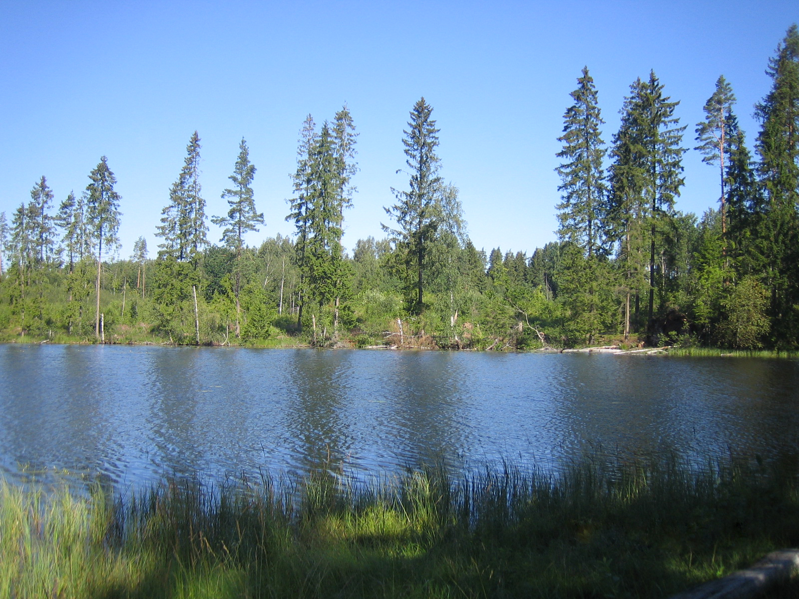 Põrstõ (Põrste) lake